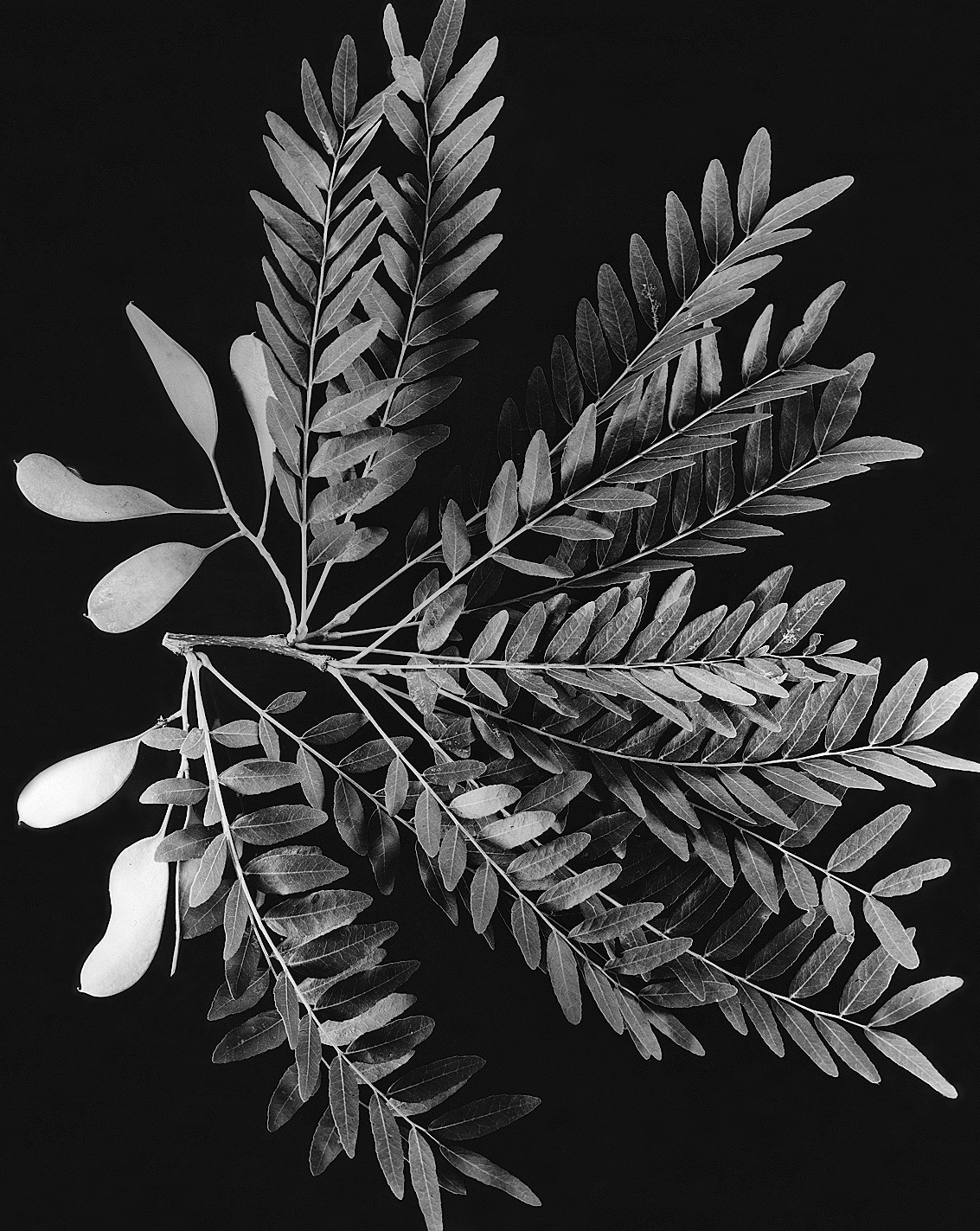 Gleditsia aquatica Marshall - water locust